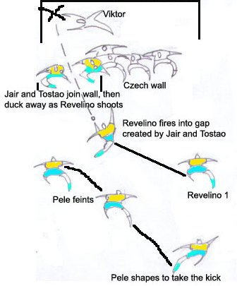 Free kick- Revelino 1970- Brazil vs Czech